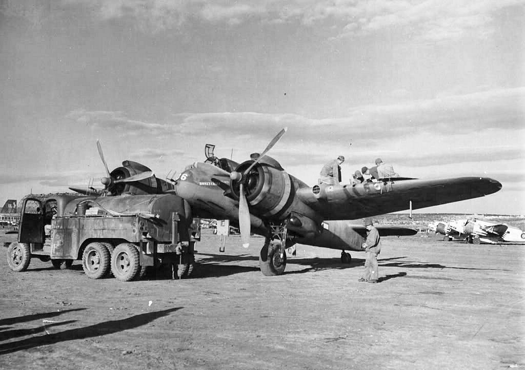 414th Night Fighter Squadron Bristol Beaufighte